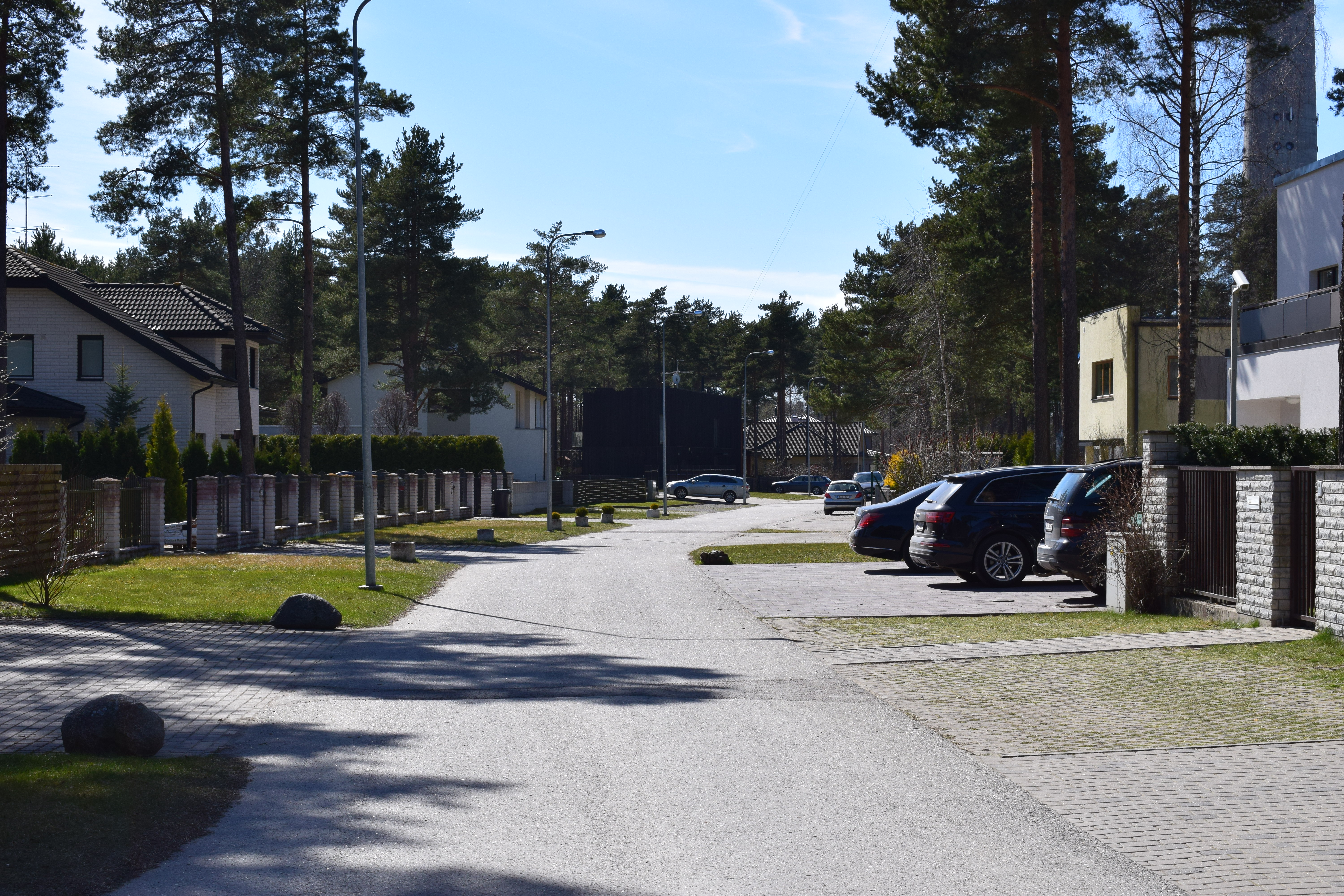 Põdrakanepi street